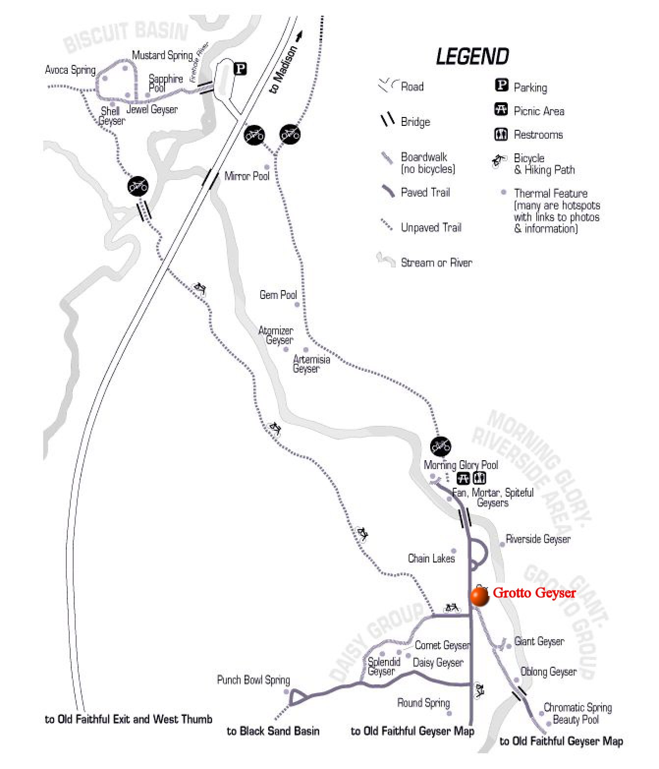 NPS Park of Northern section of Upper Geyser Basin, Yellowstone National Park, with Grotto Geyser highlighted